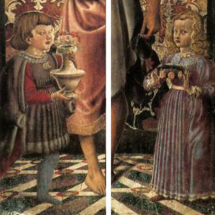 ANDREA DEL CASTAGNO Madonna and Child with Saints Detail with portraits of Renato and Oretta Pazzi Fresco, 290 x 212 cm Contini Bonacossi Collection, Florence